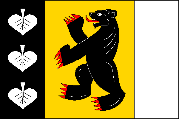 Municipal flag of Ralsko town, Česká Lípa District, Czech Republic.